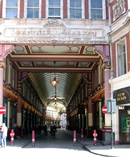 Leadenhall Market, City of London. West entrance at Gracechurch Street.